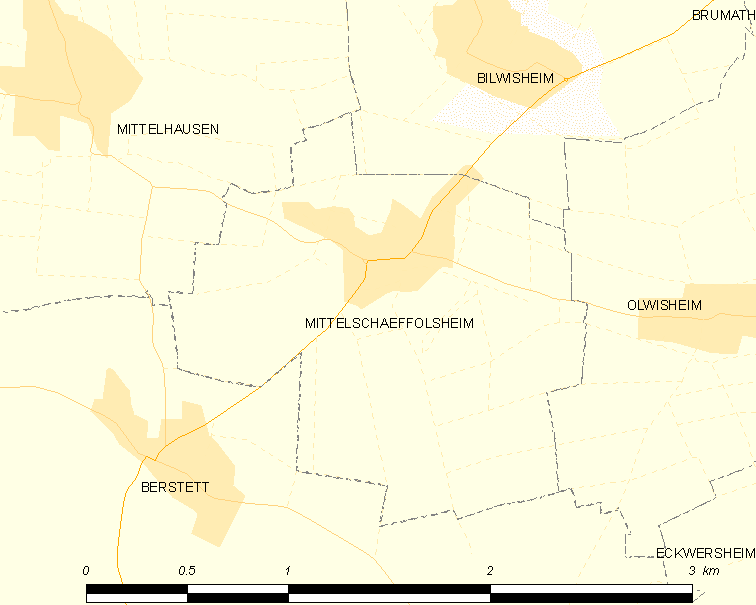 Map of French municipality